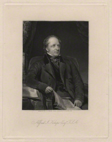 Portrait of Alfred John Kempe, (1785?–1846), English antiquarian.